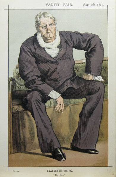 Caricature of George William Pierrepont Bentinck M.P. (1803 – 1886)